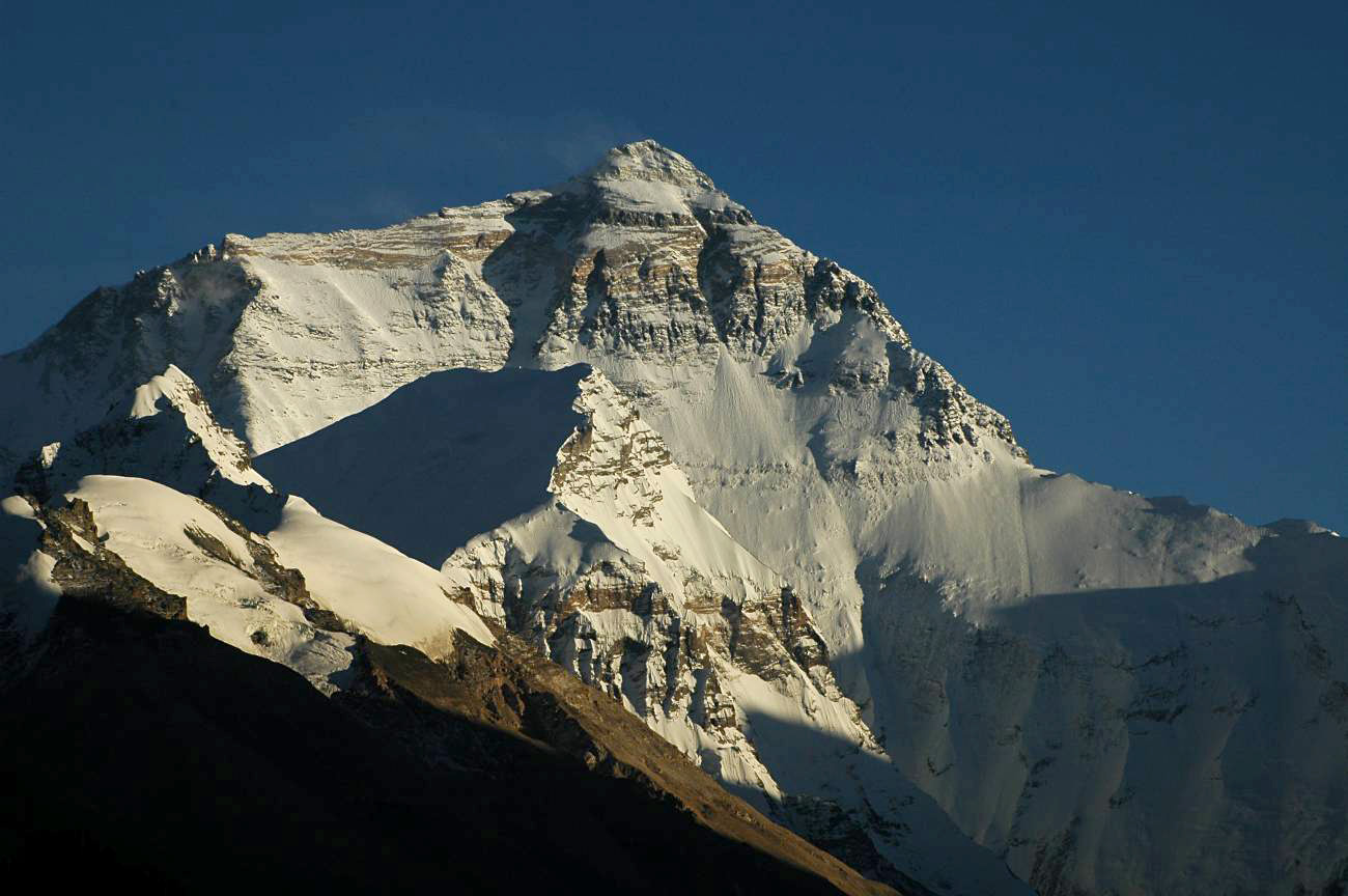 Mount Everest north face from Ronguk monastery in Tibet.